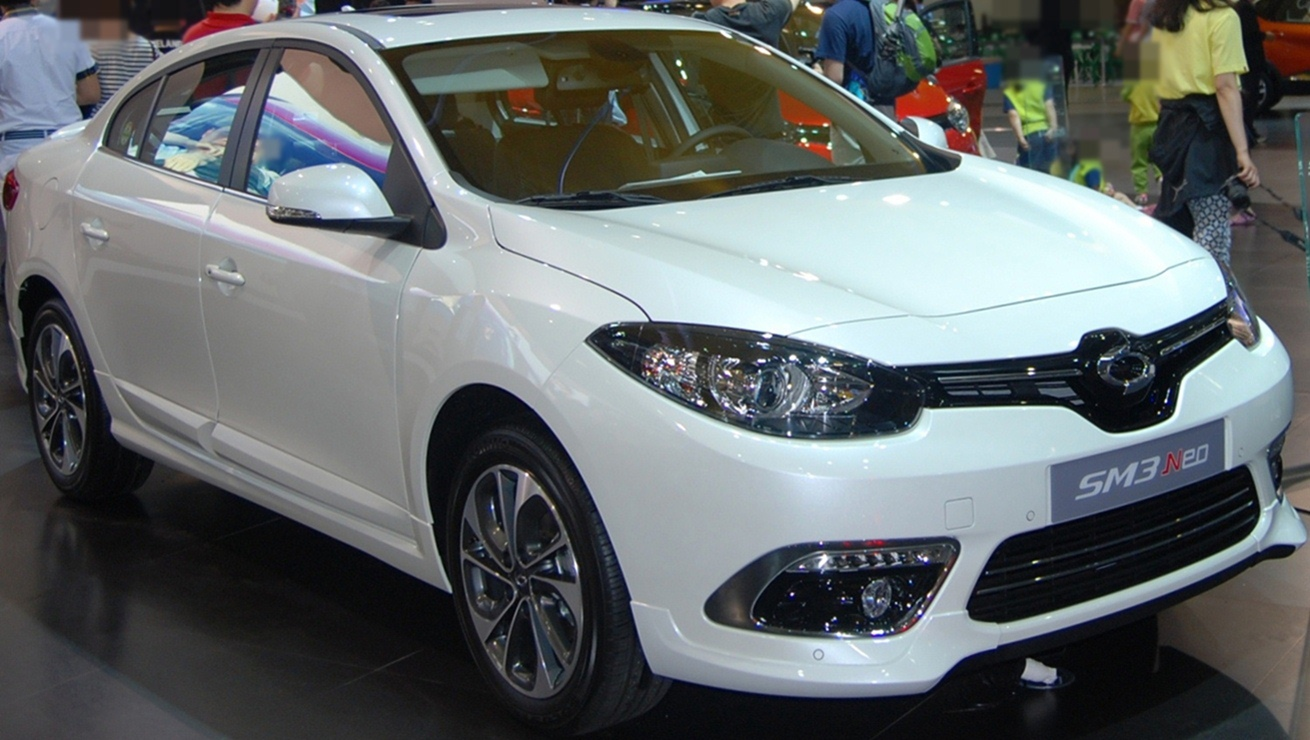 Renault Samsung SM3 Neo